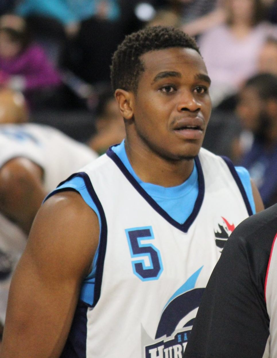 Halifax